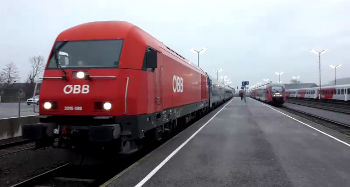 ÖBB 2016 am IC/REX 317 Graz - Budapest im Bahnhof Fehring.